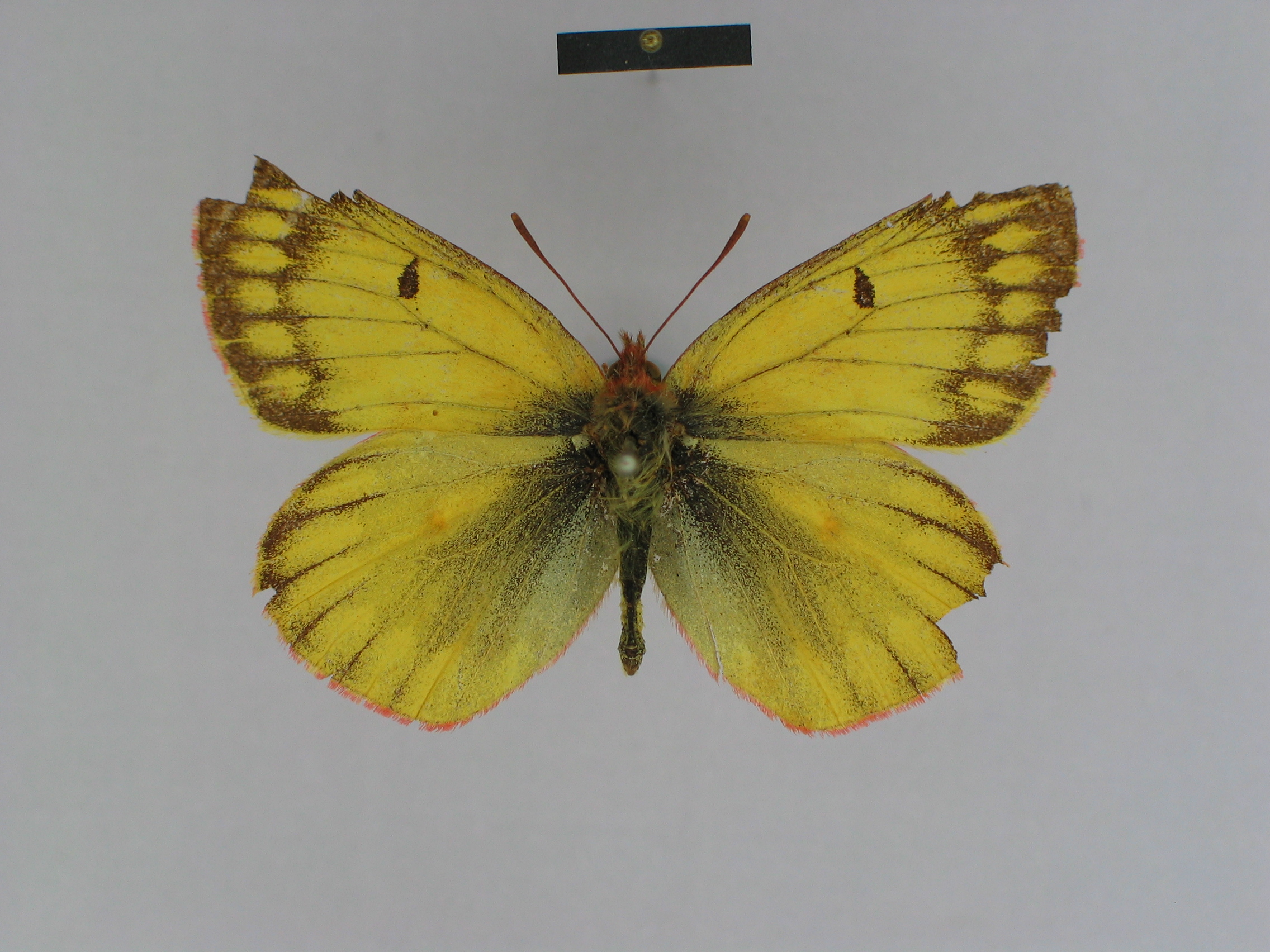 Specimen of the species Colias ladakensis ladakensis from the collection of the Zoological Museum of the Zoological Institute of the Russian Academy of Sciences; ♂ dorsal side; scalebar=1 cm